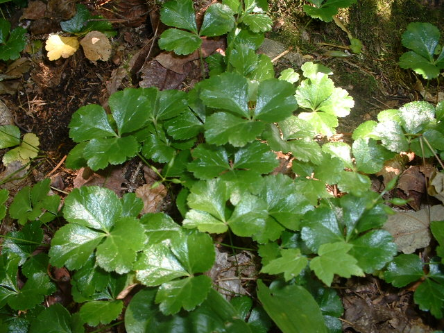 Coptis trifolia (goldthread), Pancake Bay Provincial Park, Ontario, Canada